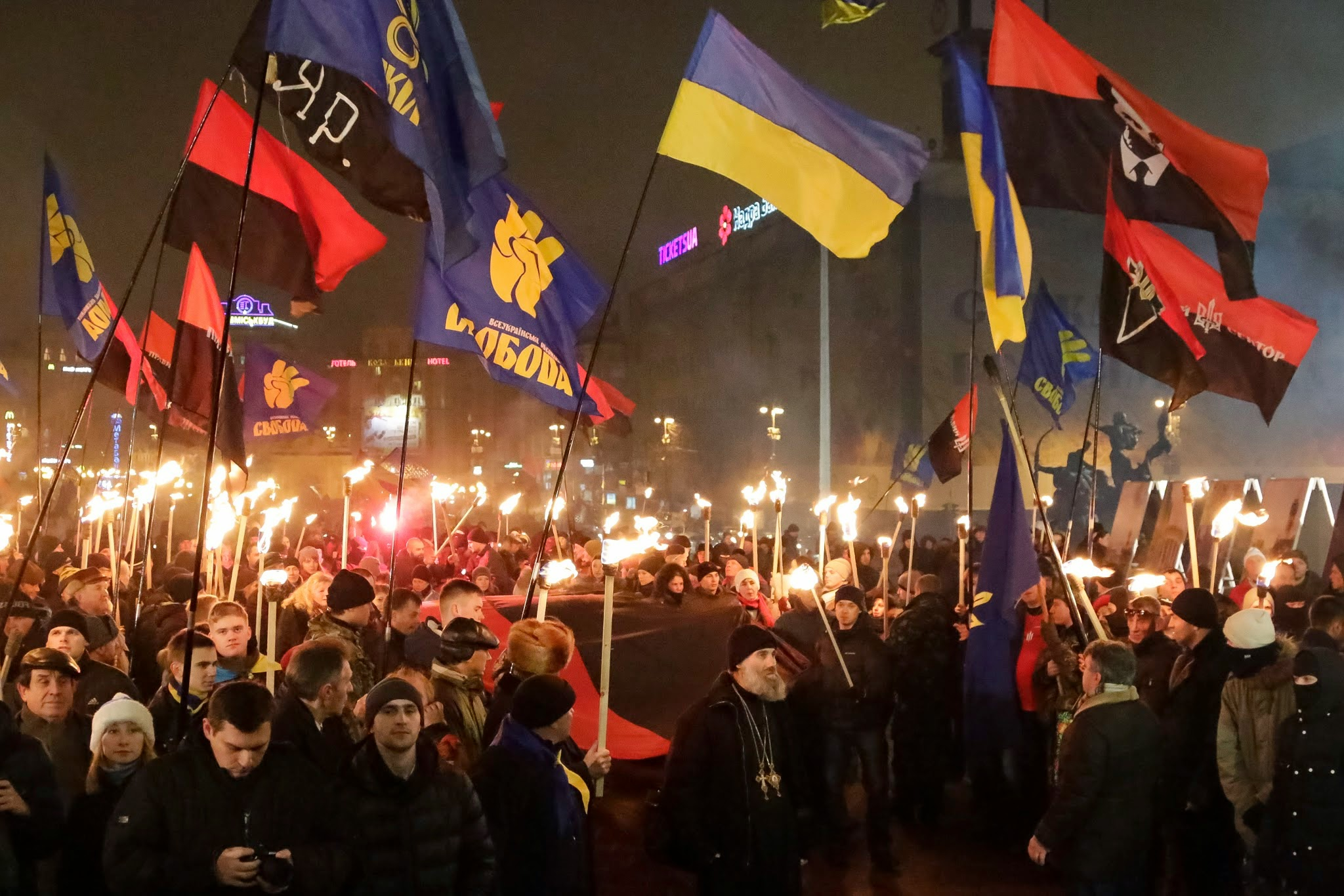 Torchlight procession in honor of the 106 anniversary of the birthday of Stepan Bandera, Kiev, 1 January 2015.